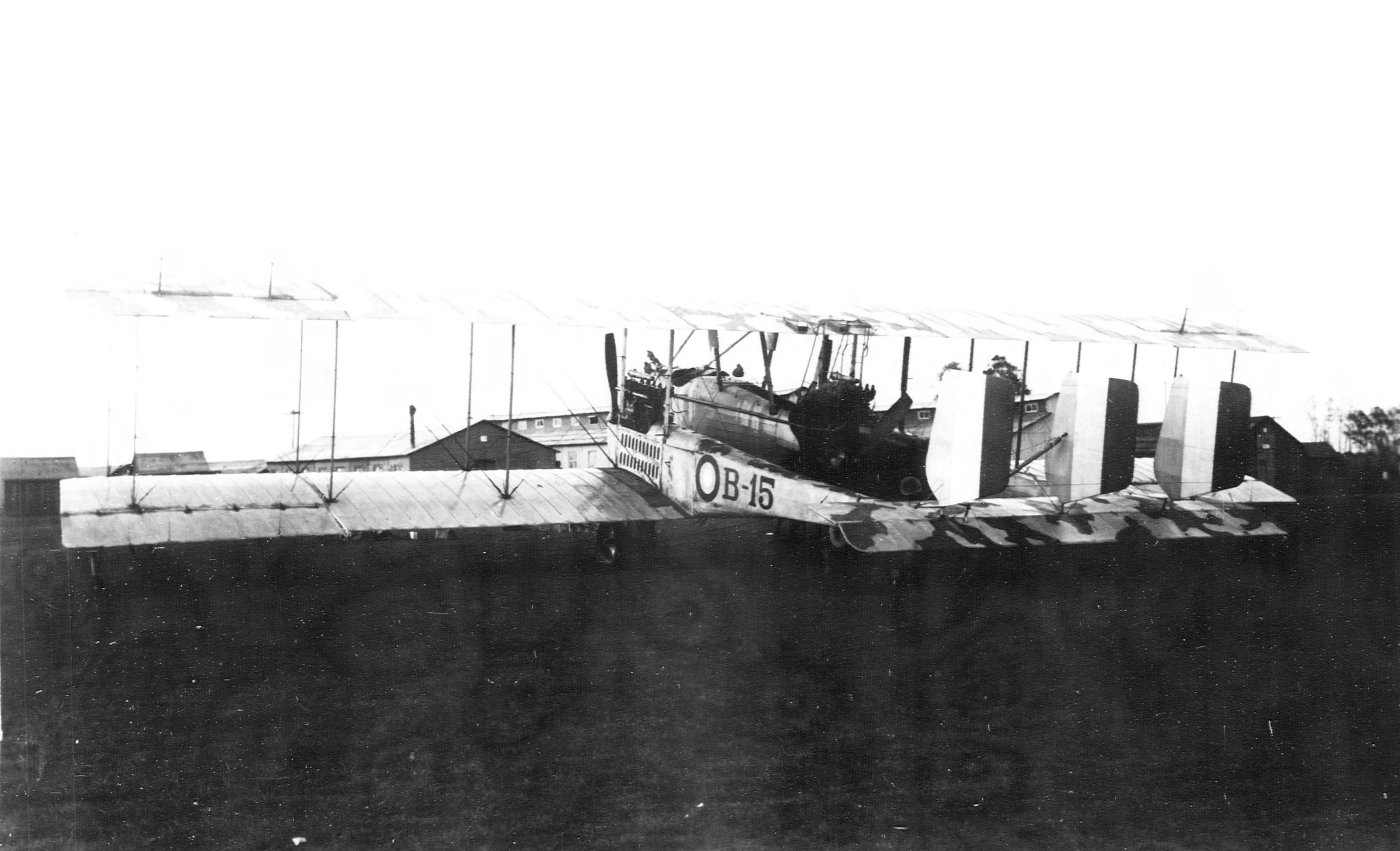 Caproni Ca.5 at Air Service Production Center No. 2, Romorantin Aerodrome, France, 1918